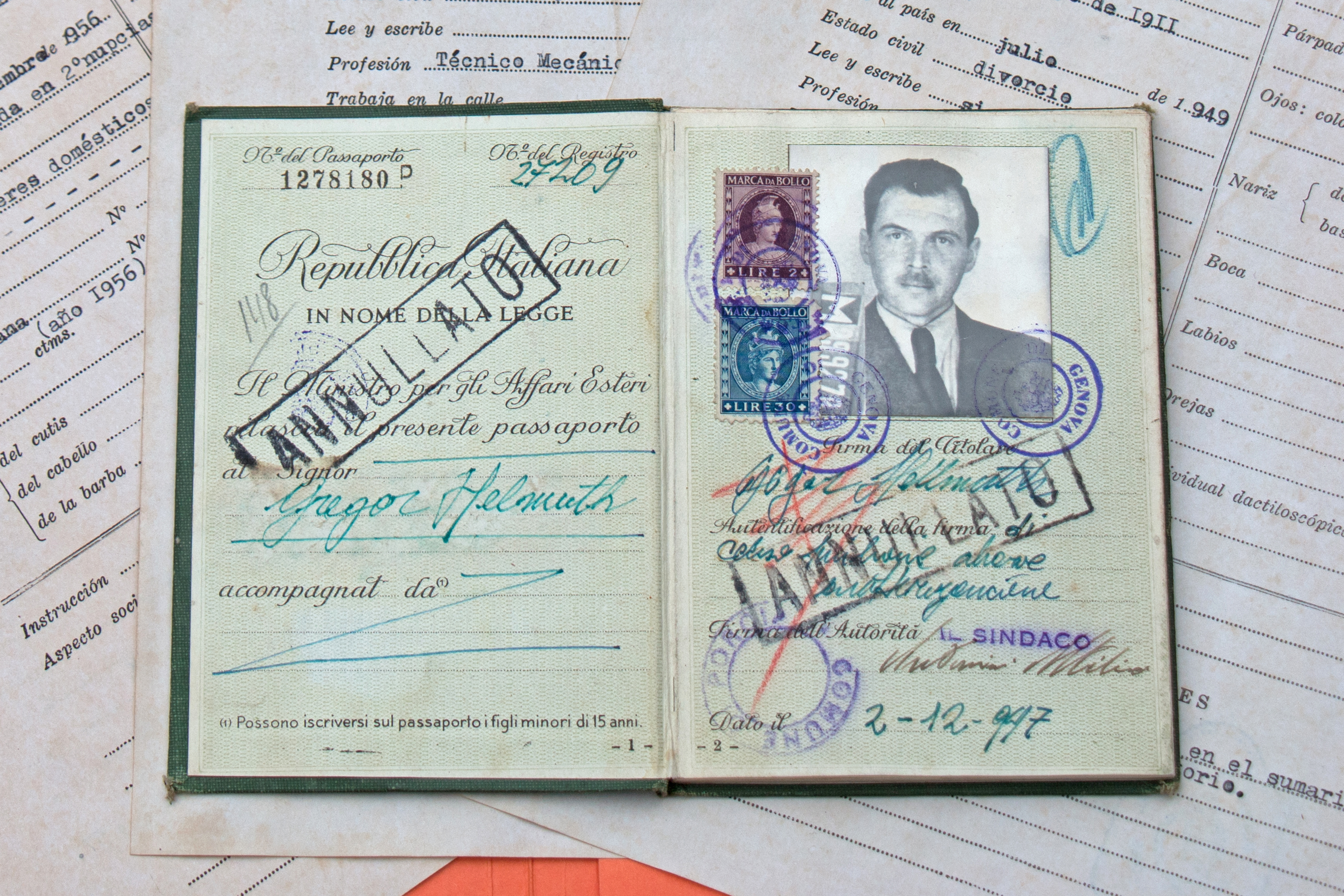 Italian Passport used by Mengele to flee justice and escape to Argentina in 1949.